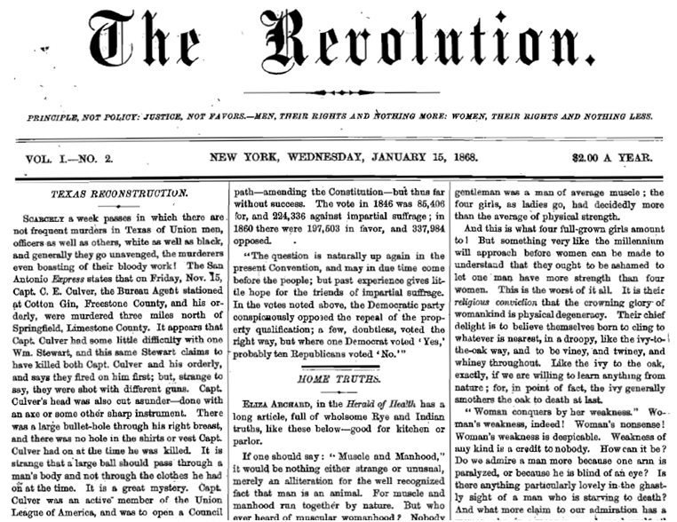 Cropped image of Volume 1, Number 2, of The Revolution, Jan 15, 1868